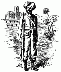 Indian soldier